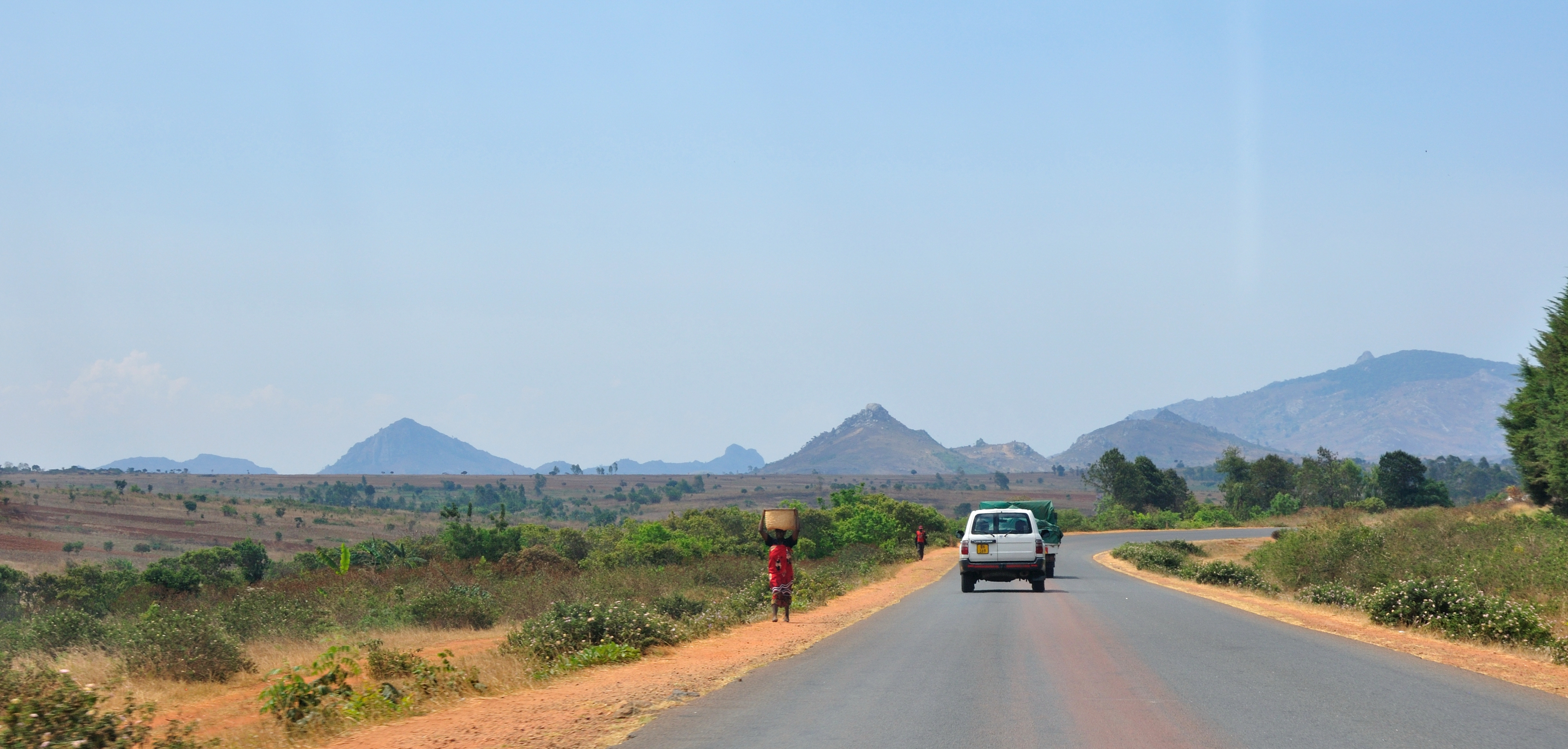 Malawi, road side impressions along the M1 between Blantyre and Lilongwe